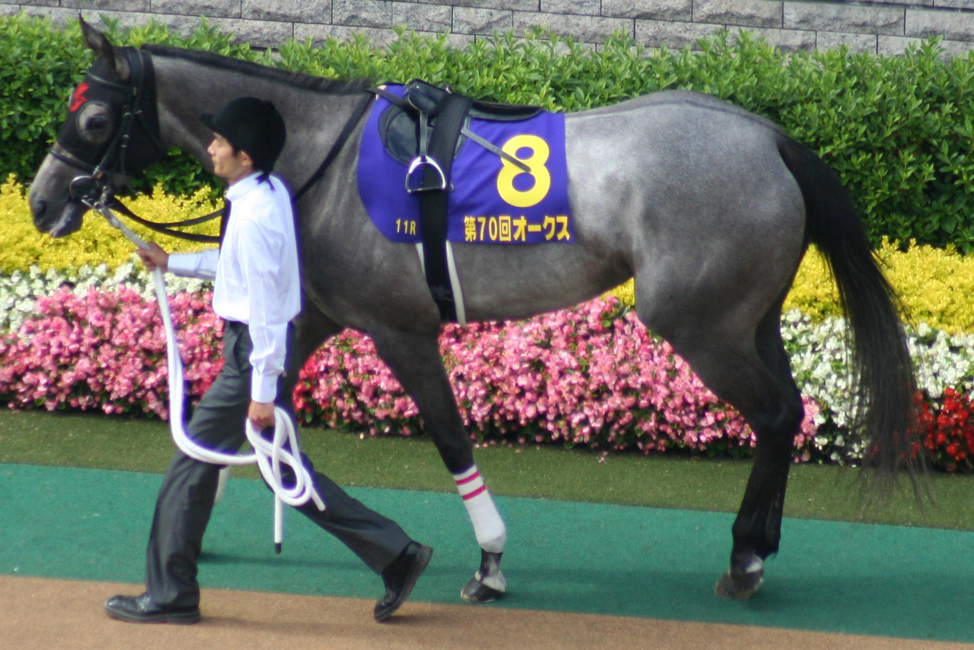 Dear Geena (horse). [1] Pedigree of Dear Geena, 2006 grey filly by Mejiro McQueen, out of Ines Tarquin (Bishop Bob).